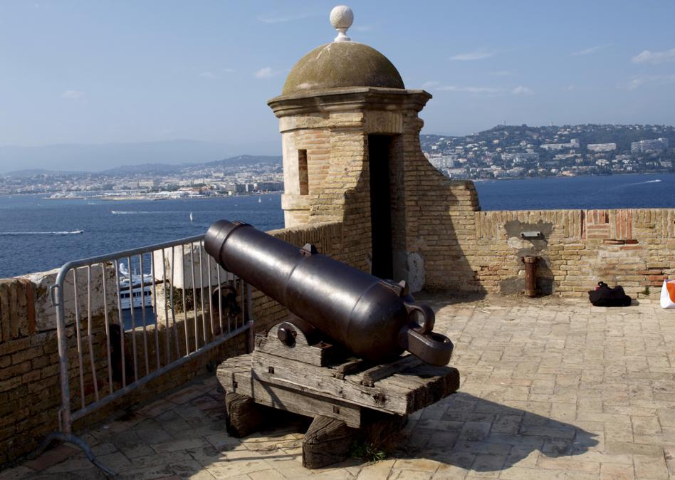 the Fort of St Marguerite